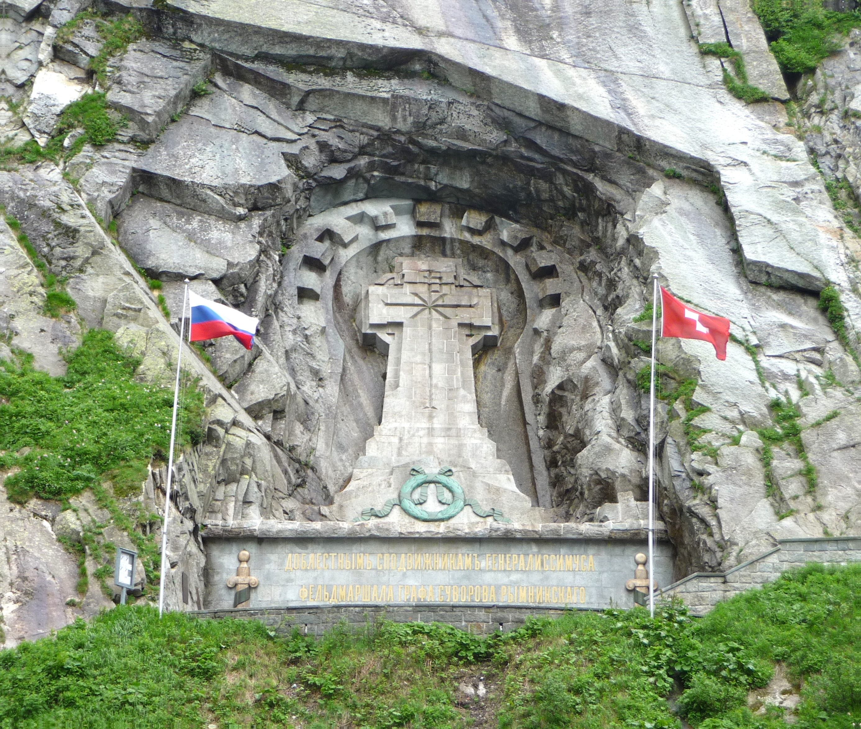 The Suvorov companions memorial near the Devil’s Bridge (Uri, Switzerland).